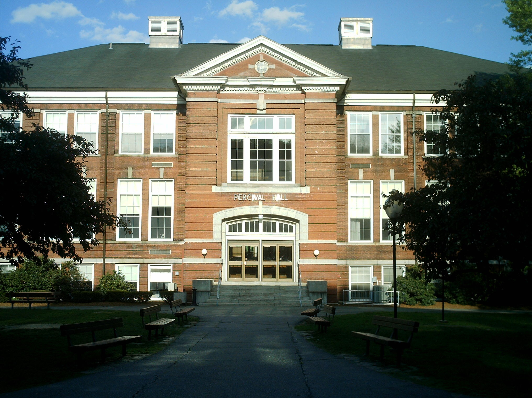 Percival Hall at Fitchburg State College